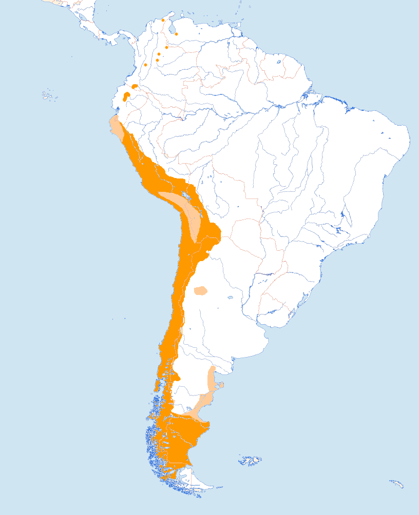 Vultur gryphus, distribution map